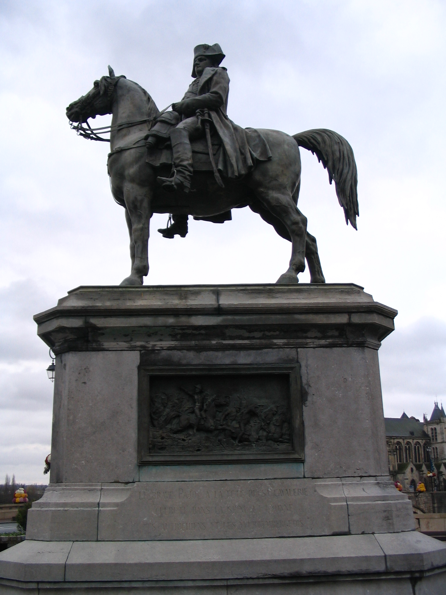 Charles Pierre Victor Pajol (French, 1821-1891): equestrian statue of Napoleon Ier in Montereau-Fault-Yonne, Seine-et-Marne, France.